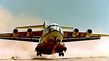 McDonnell Douglas YC-15 taking off in Edwards AFB